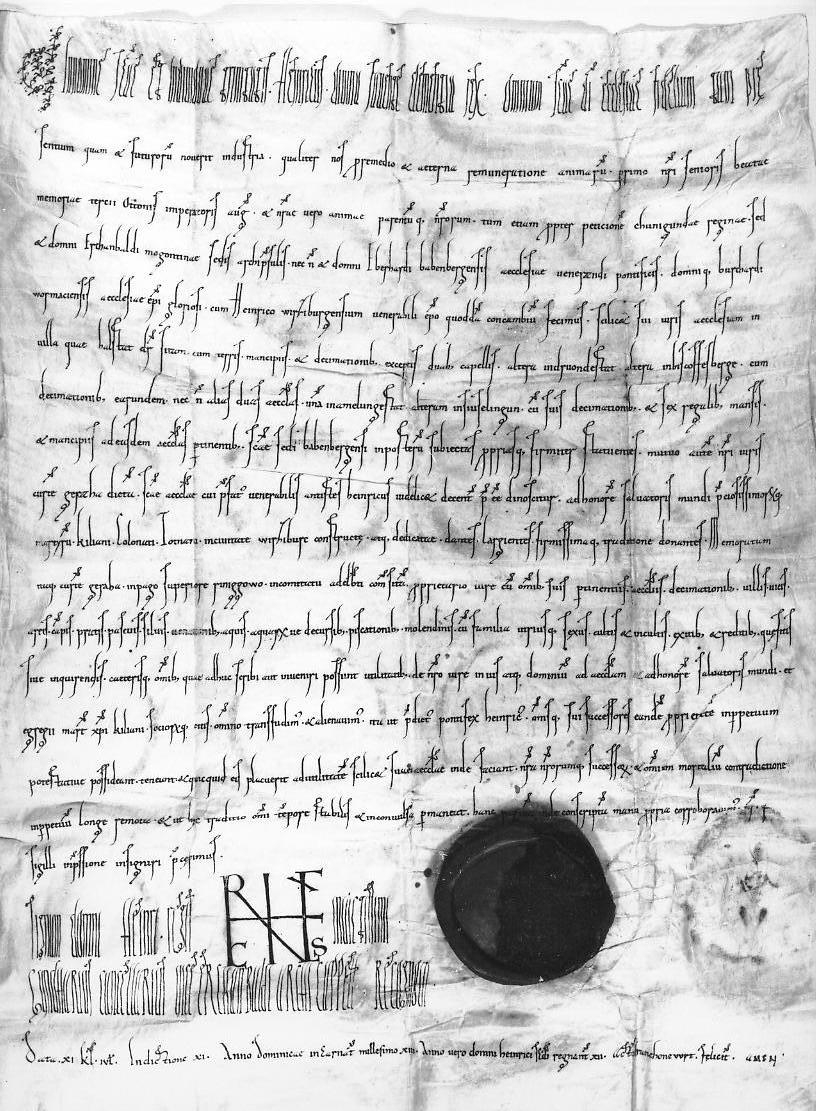 Deed of Emperor Henry II from the year 1013